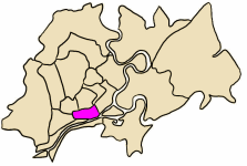 position of district 5 in an outline of the core area of HCMC (Ho Chi Minh City, Vietnam) - ISO code VN-F-HC. Keywords: map, outline, city, Ho Chi Minh City, HCMC, HCM, district 5, quan 5.